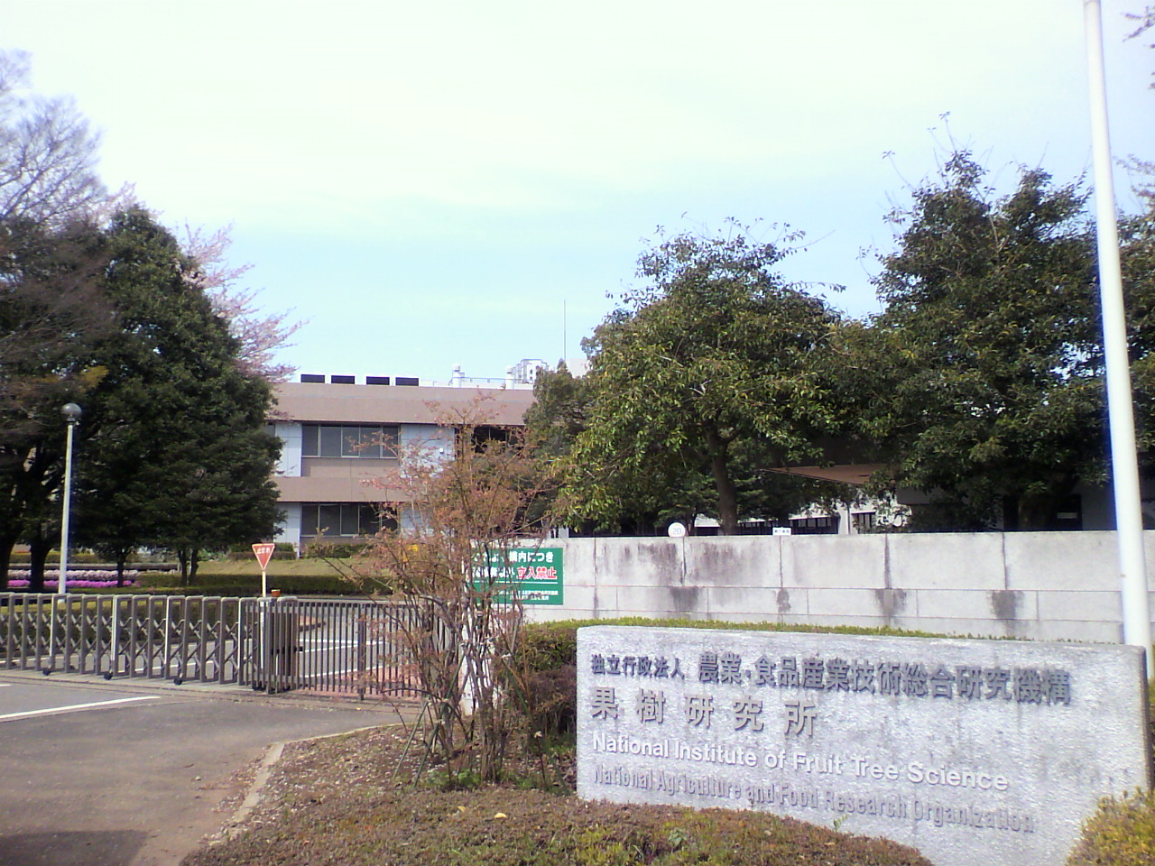 This is an entrance of National Institute of Fruit Tree Science (NIFTS) in Japan. This institute is in same place of National Institute of Floricultural Science (NIFS, kakiken) .